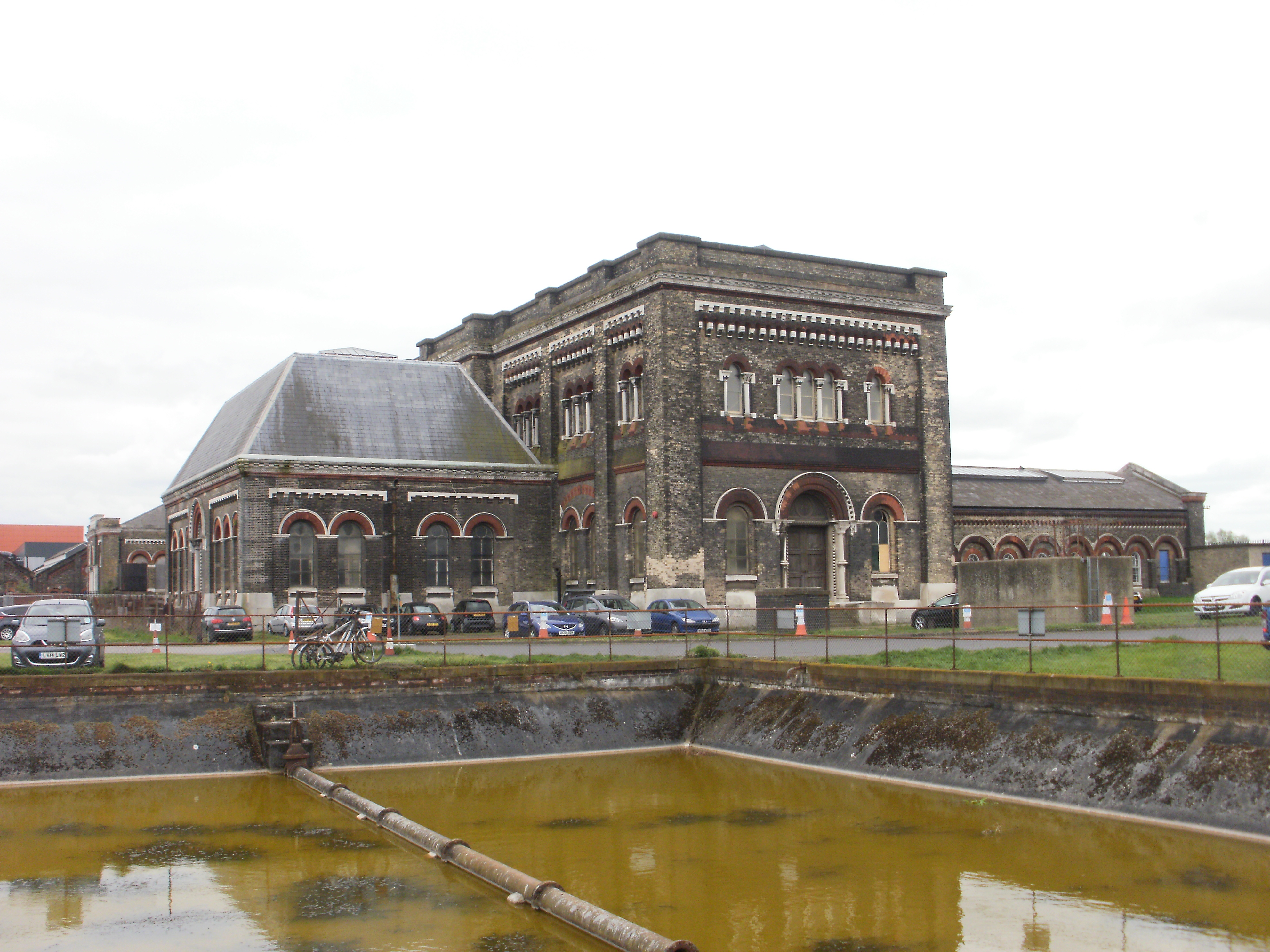 Exterior of Crossness Pumping Station, near to Thamesmead in south-east London. This image includes the western side of the building, with the Beam Engine House in the centre, the Triple Expansion Engine House to the left, and Boiler House to the right.